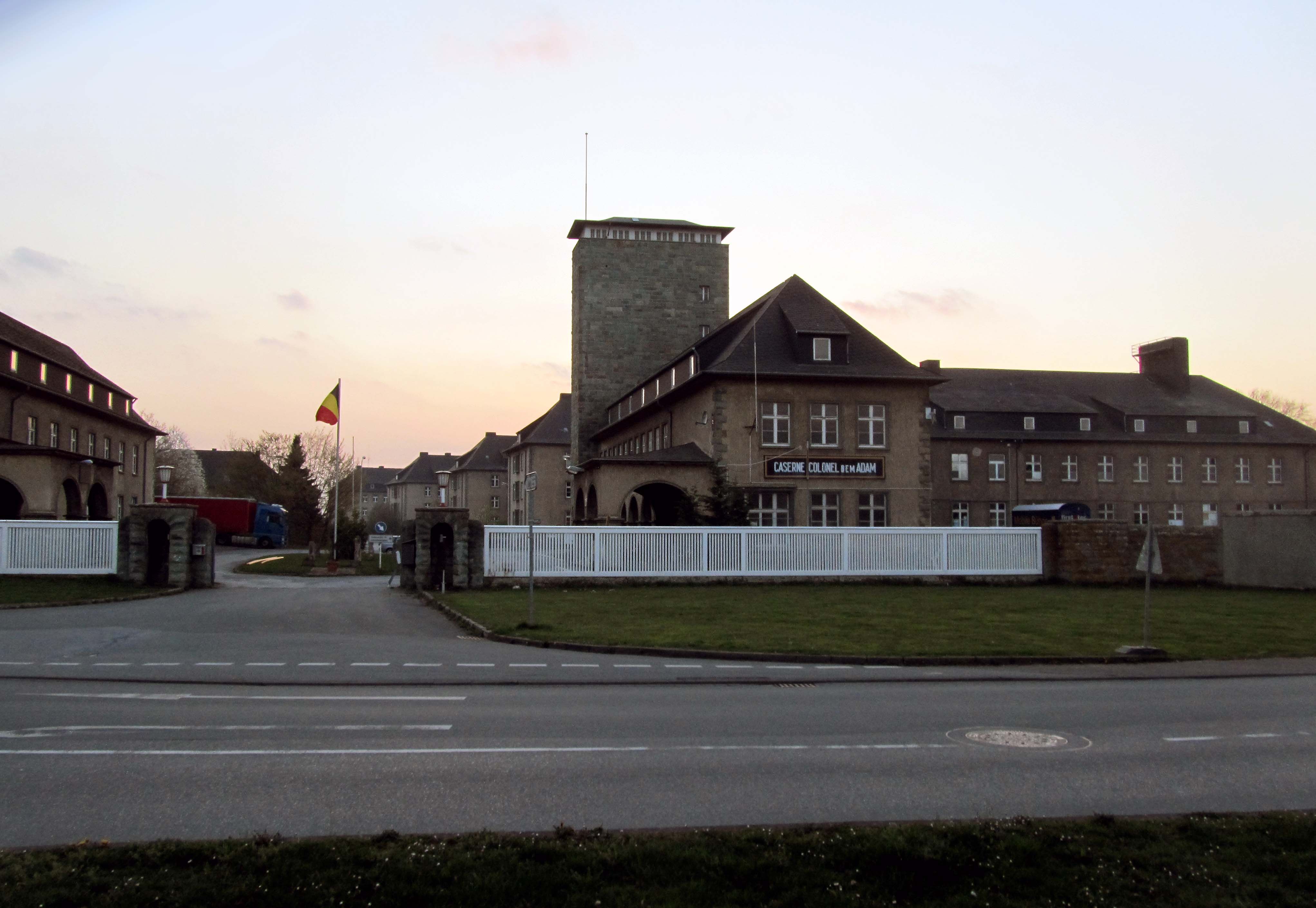 Former Belgian Barracks Colonel BEM Adam in Soest Germany - in Second Worldwar War Prisoners Camp Oflag VI A